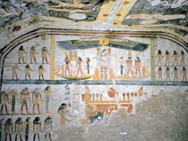 KV6: Tomb of Pharaoh Ramses IX Valley of the Kings